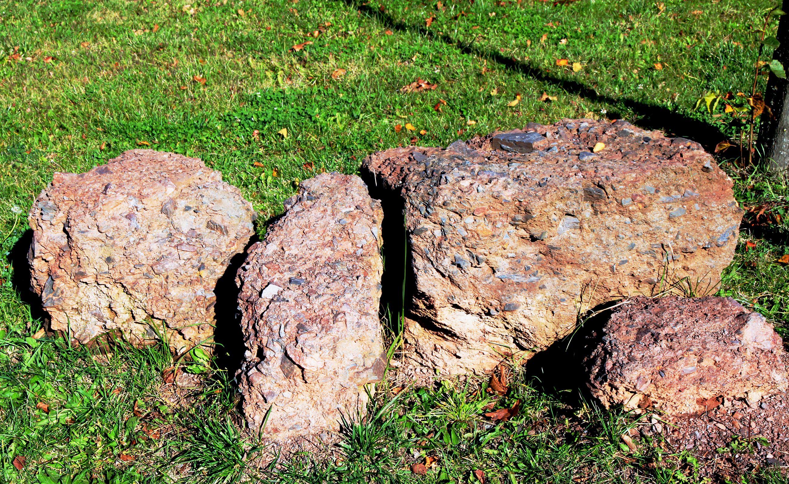 Breccia from Czech in small geopark “Geologická zahrada” in Dolní Počernice, Prague, Czech Republic